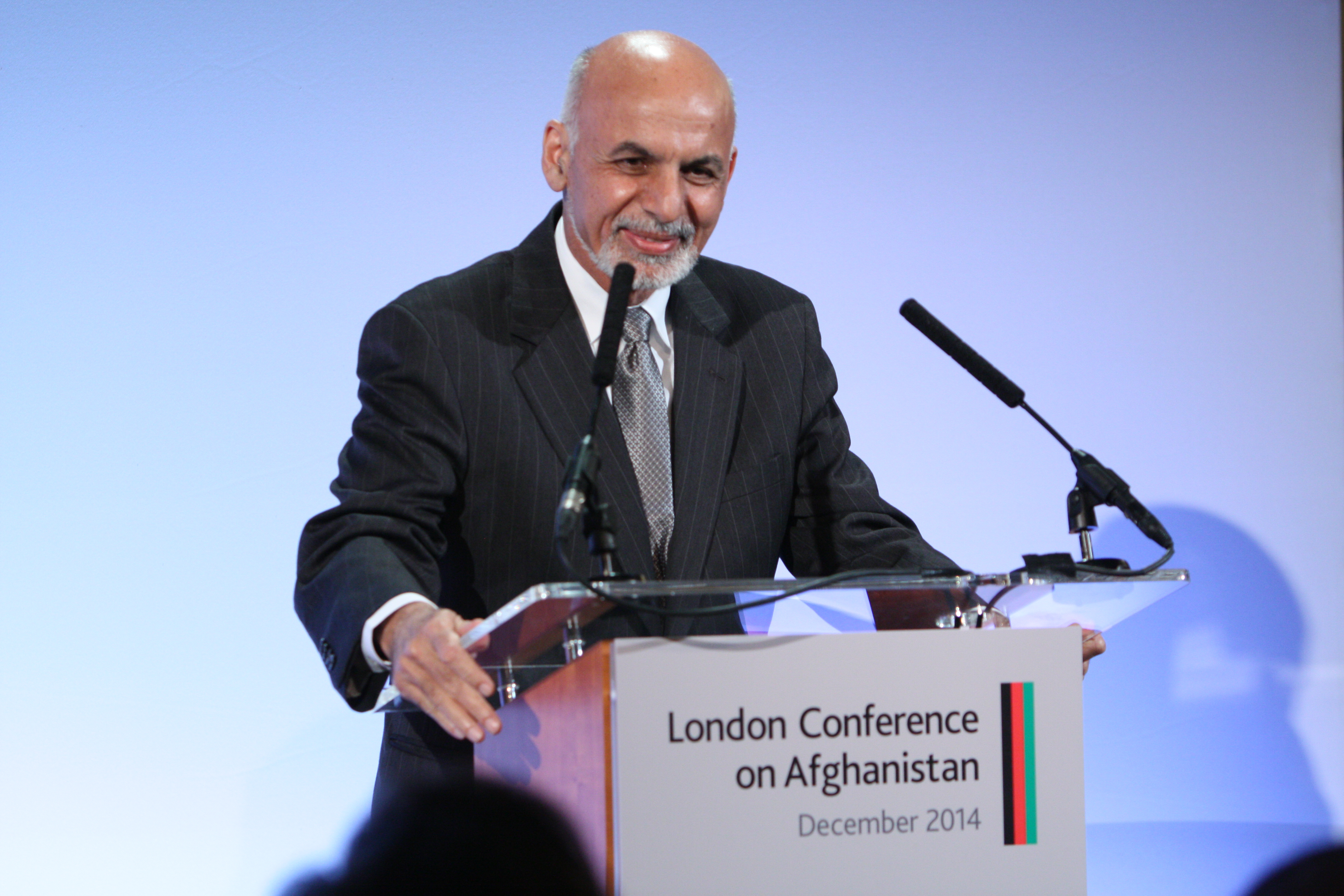 The London Conference on Afghanistan takes place on 4 December 2014, co-hosted by the governments of the UK and Afghanistan. The Conference brings together the Afghan government and international community in support of a secure and peaceful future for Afghanistan. Find out more at: Picture: Patrick Tsui/FCO Free-to-use photo This image is posted under a Creative Commons - Attribution Licence, in accordance with the Open Government Licence. You are free to embed, download or otherwise re-use it, as long as you credit the source as ‘Patrick Tsui/FCO’.